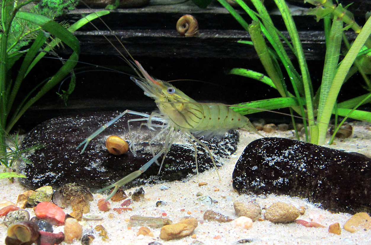 Juvinile Giant Malaysian prawn, measuring about 3 inches (7.5 centimeters).